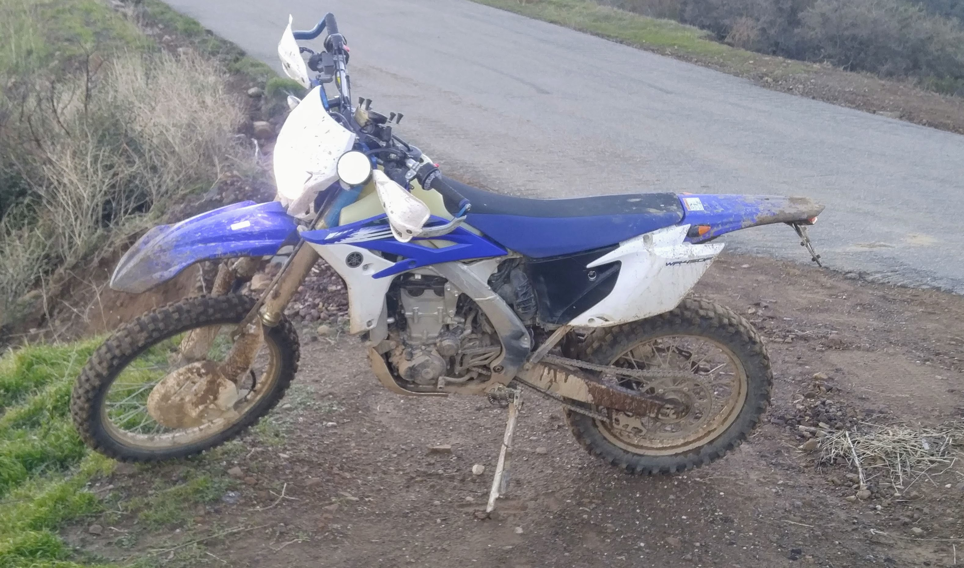 A 2012 Yamaha WR450F